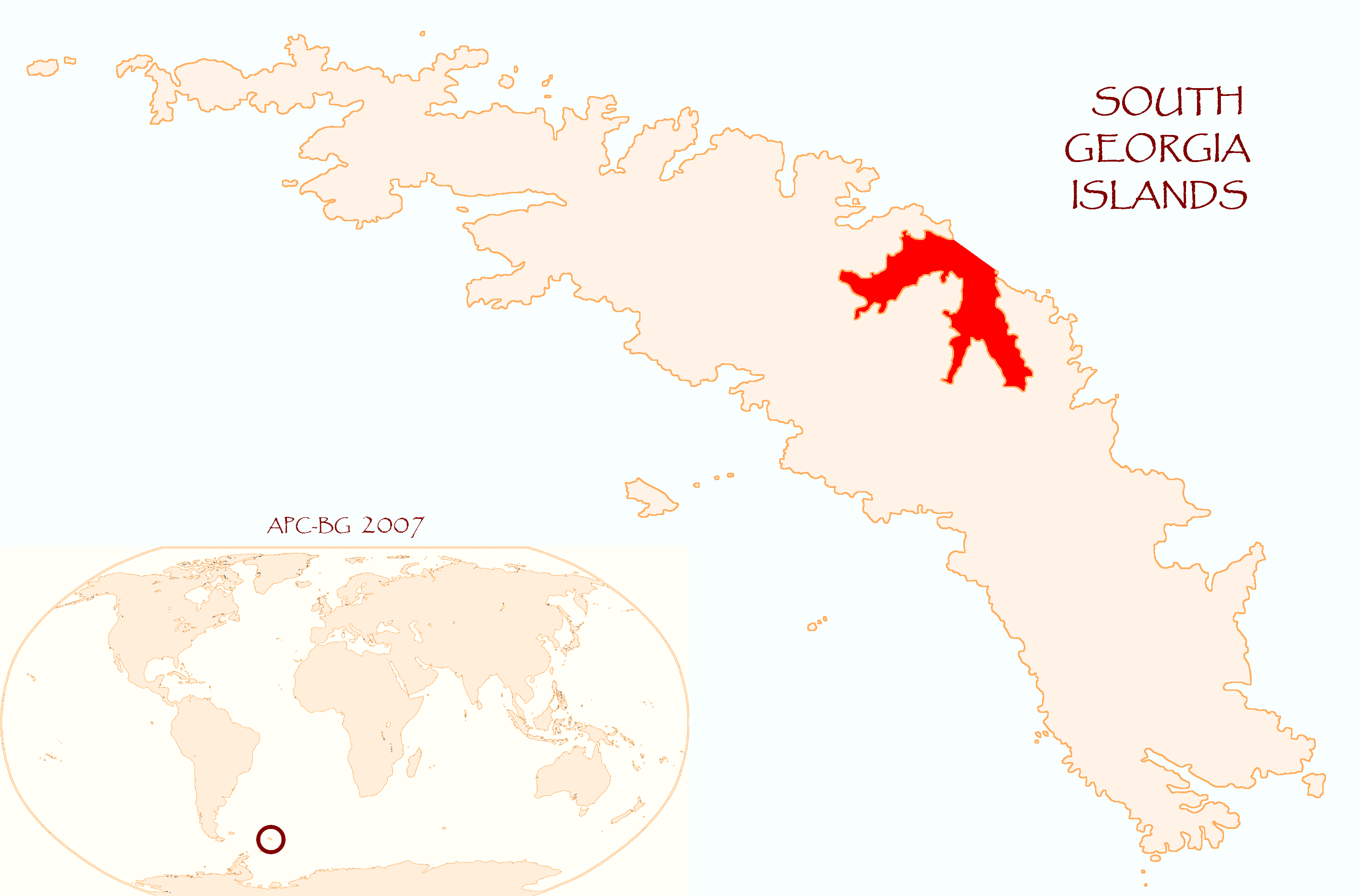 Location map for Cumberland Bay, South Georgia published by the author Apcbg.